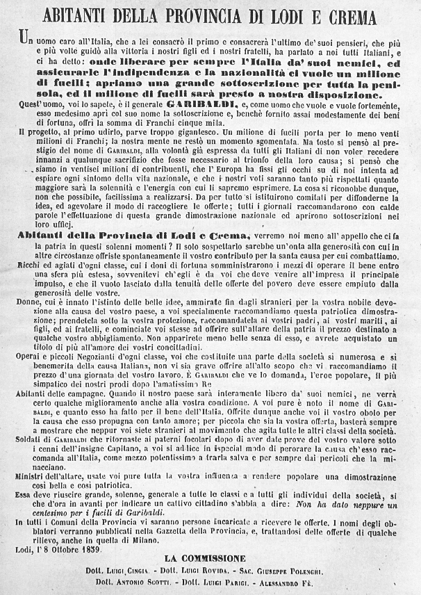 Advise of money collection to offer one million of rifles to Garibaldi